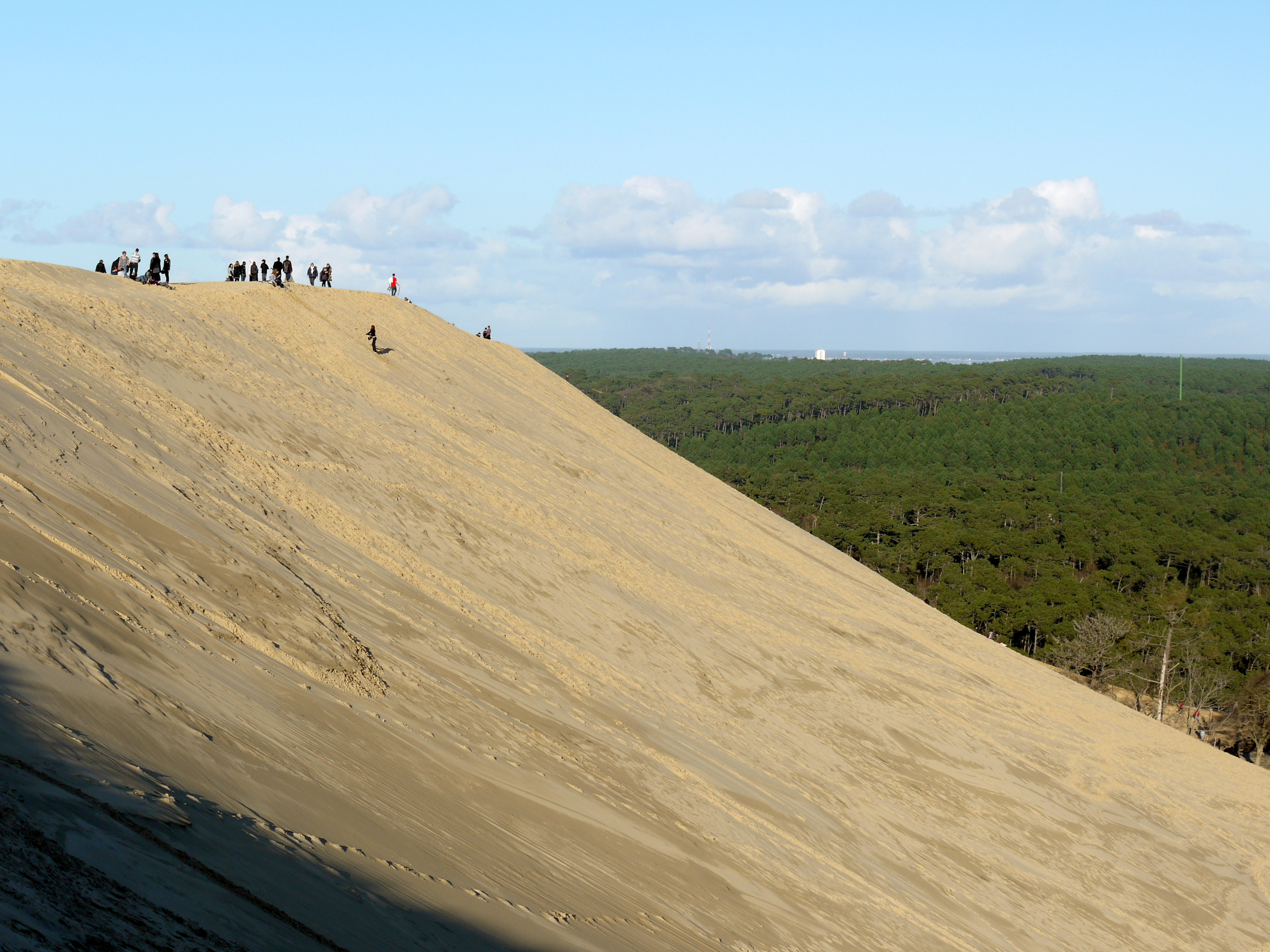 The Great Dune of Pyla, France, the tallest sand dune in Europe, being 107 m high at its crest.